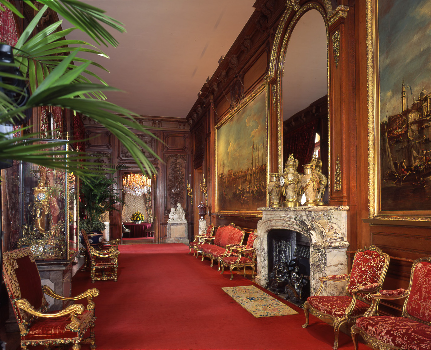 Waddesdon's East Gallery with large paintings by Guardi and the elephant automaton